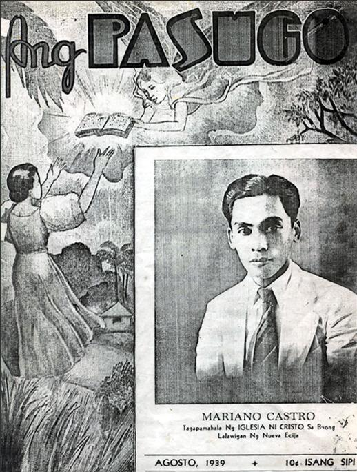 The August 1939 issue of Pasugo, the official magazine of Iglesia ni Cristo